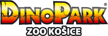 Logo of fun park called DinoPark, based in Košice, Slovakia